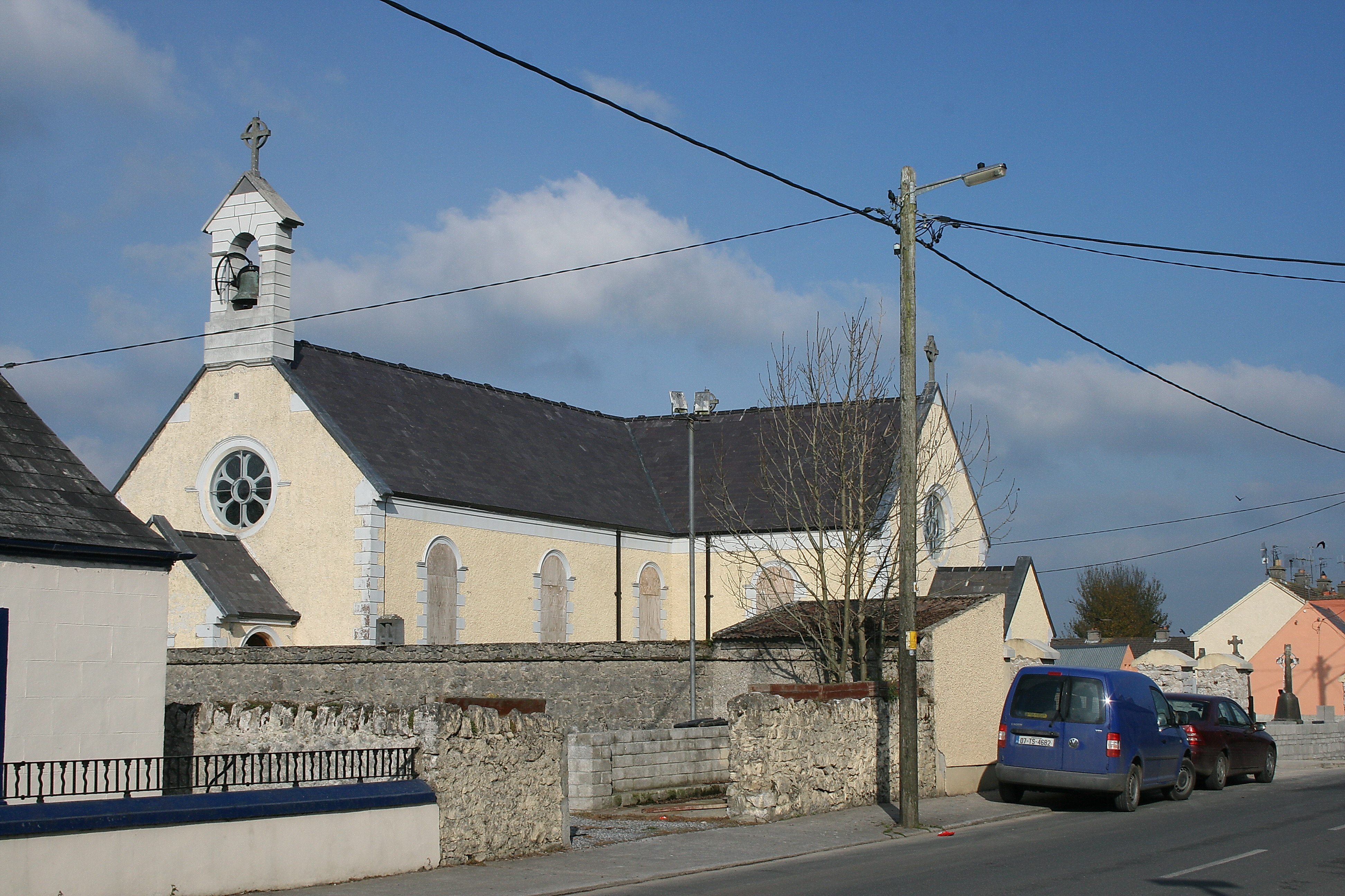 Church in Gortnahoo, County Tipperary, Ireland